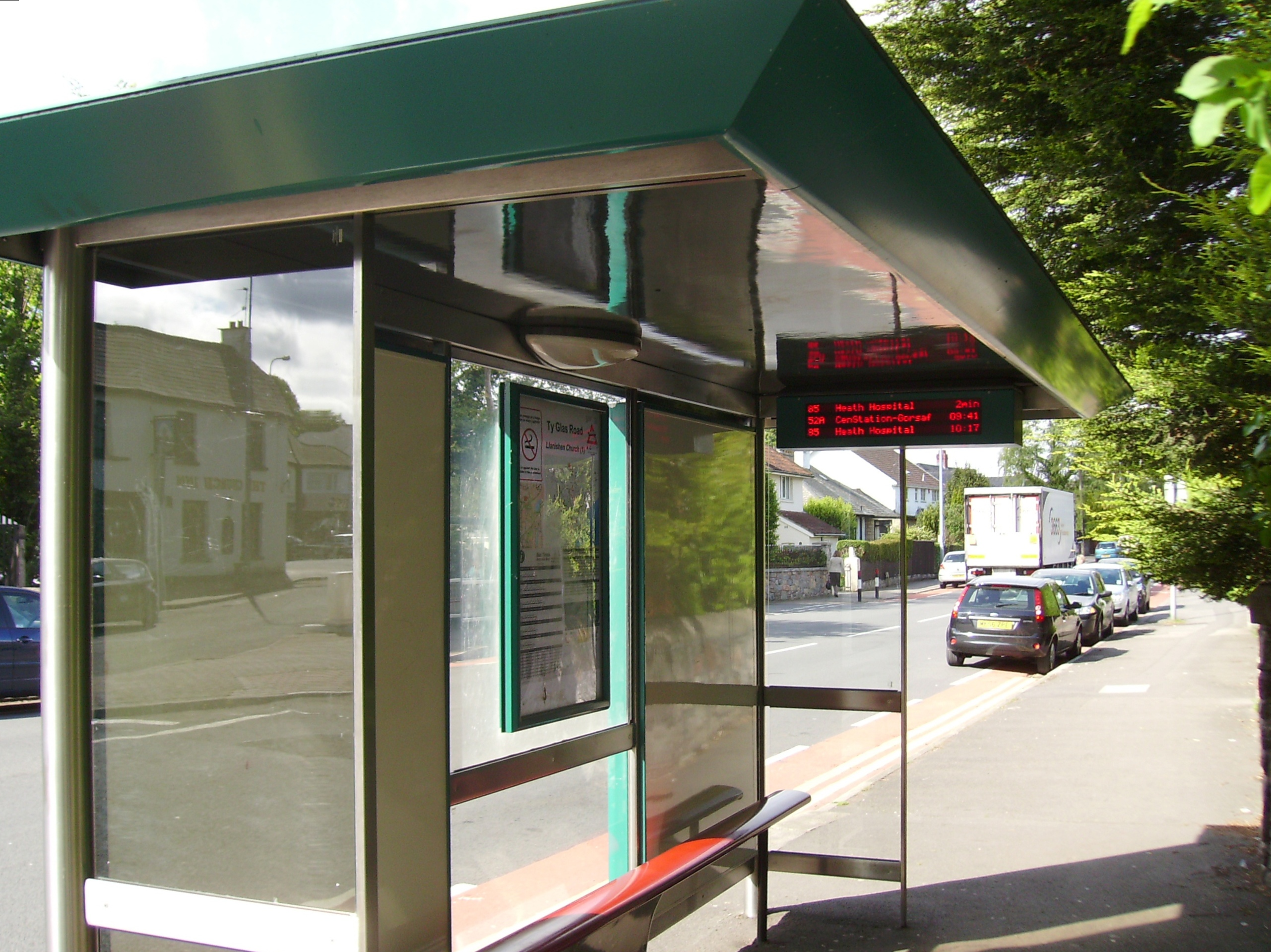 Bus stop, Ty Glas Road, Llanishen, Cardiff, Wales